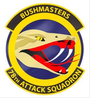 Current unit patch for the 78th Attack Squadron, "Bushmasters" of the USAF Reserve. Other information Since September of 2010, this has been the officially-recognized unit patch for the 78th Attack Squadron. No other patch from the 78th is currently in use.